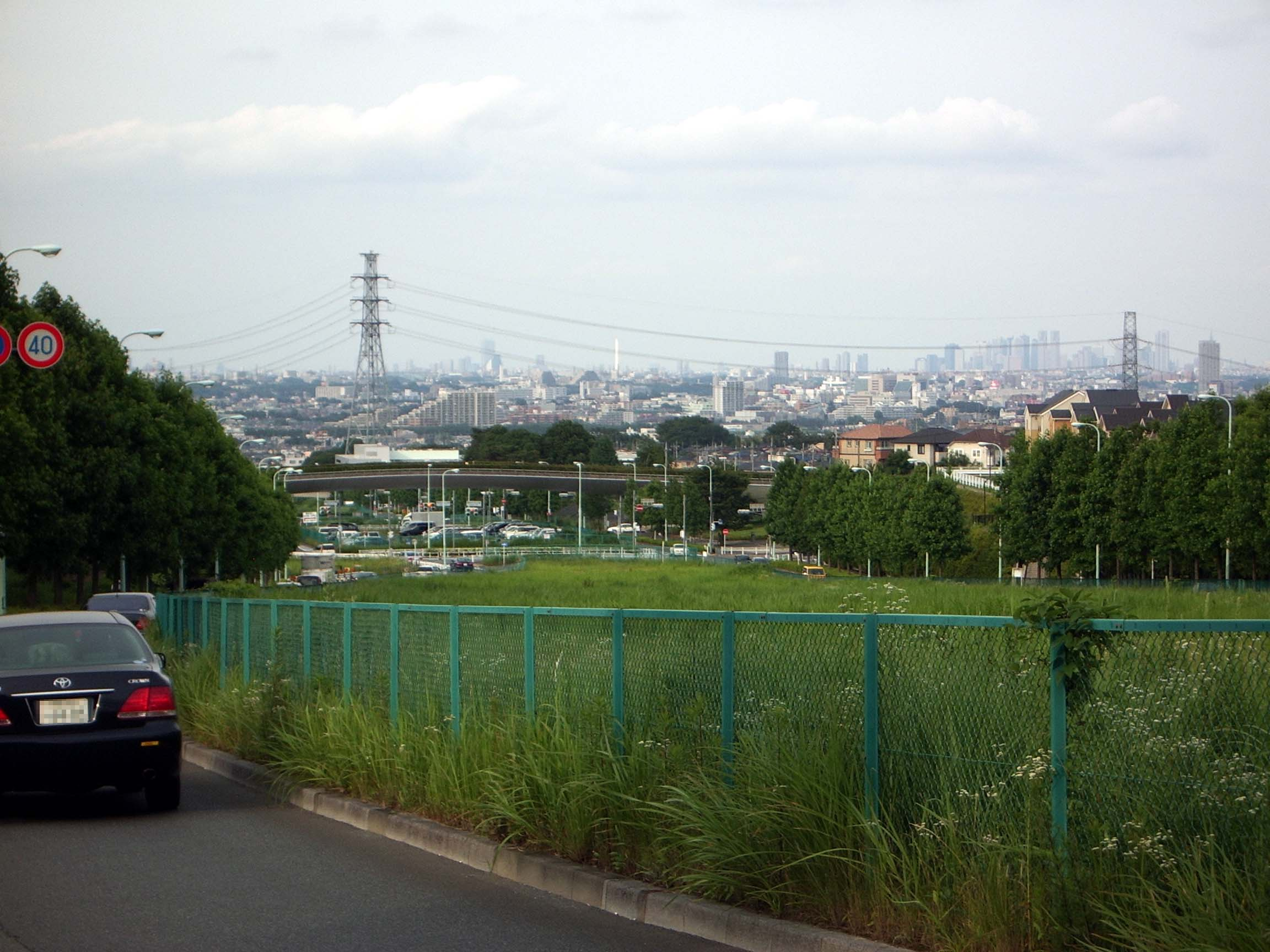 Onekansen highway, Nagamine, Inagi, Tokyo